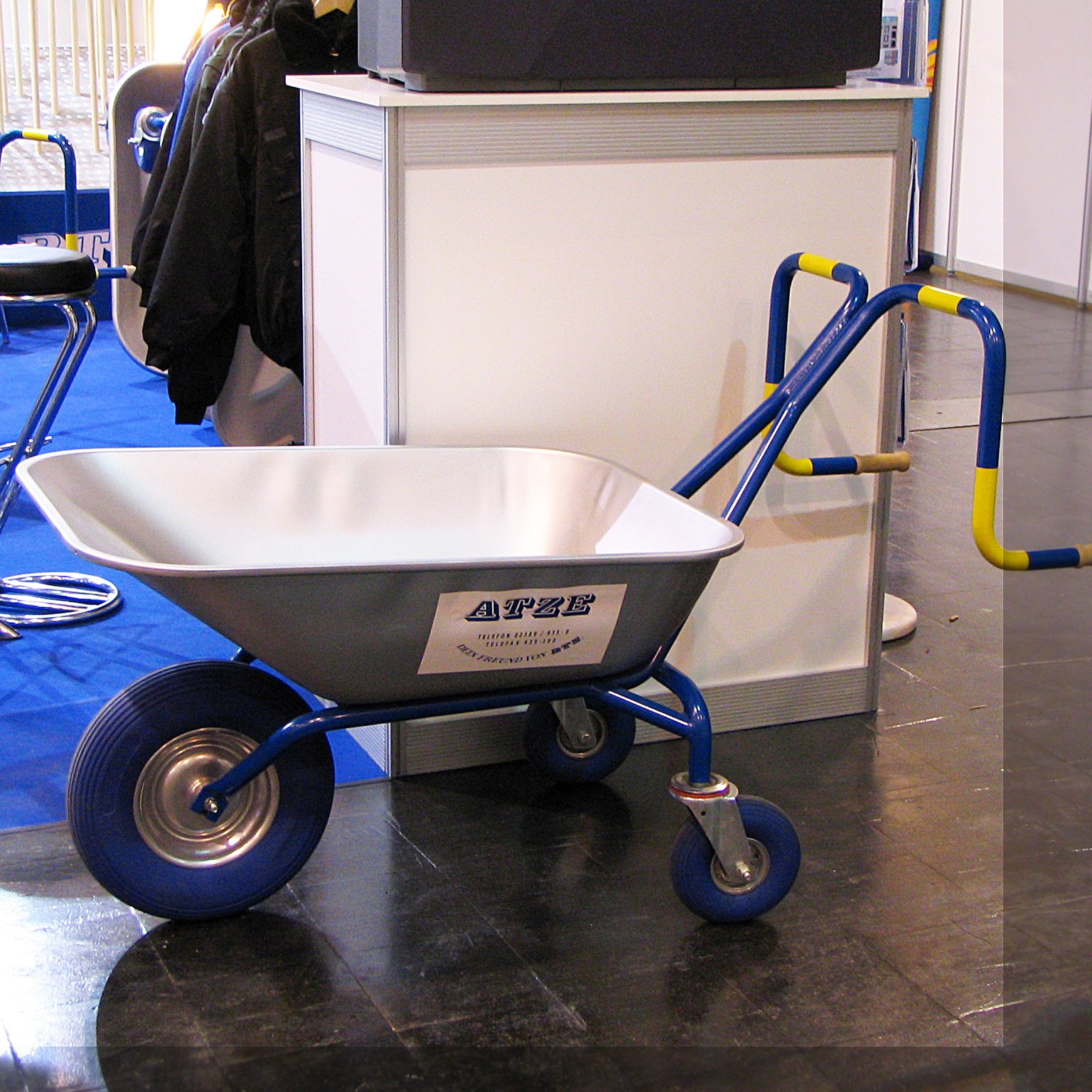 Wheelbarrow, Handwagen Atze